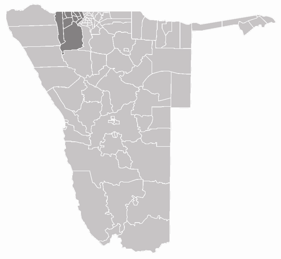 map of the Omusati region in Namibia